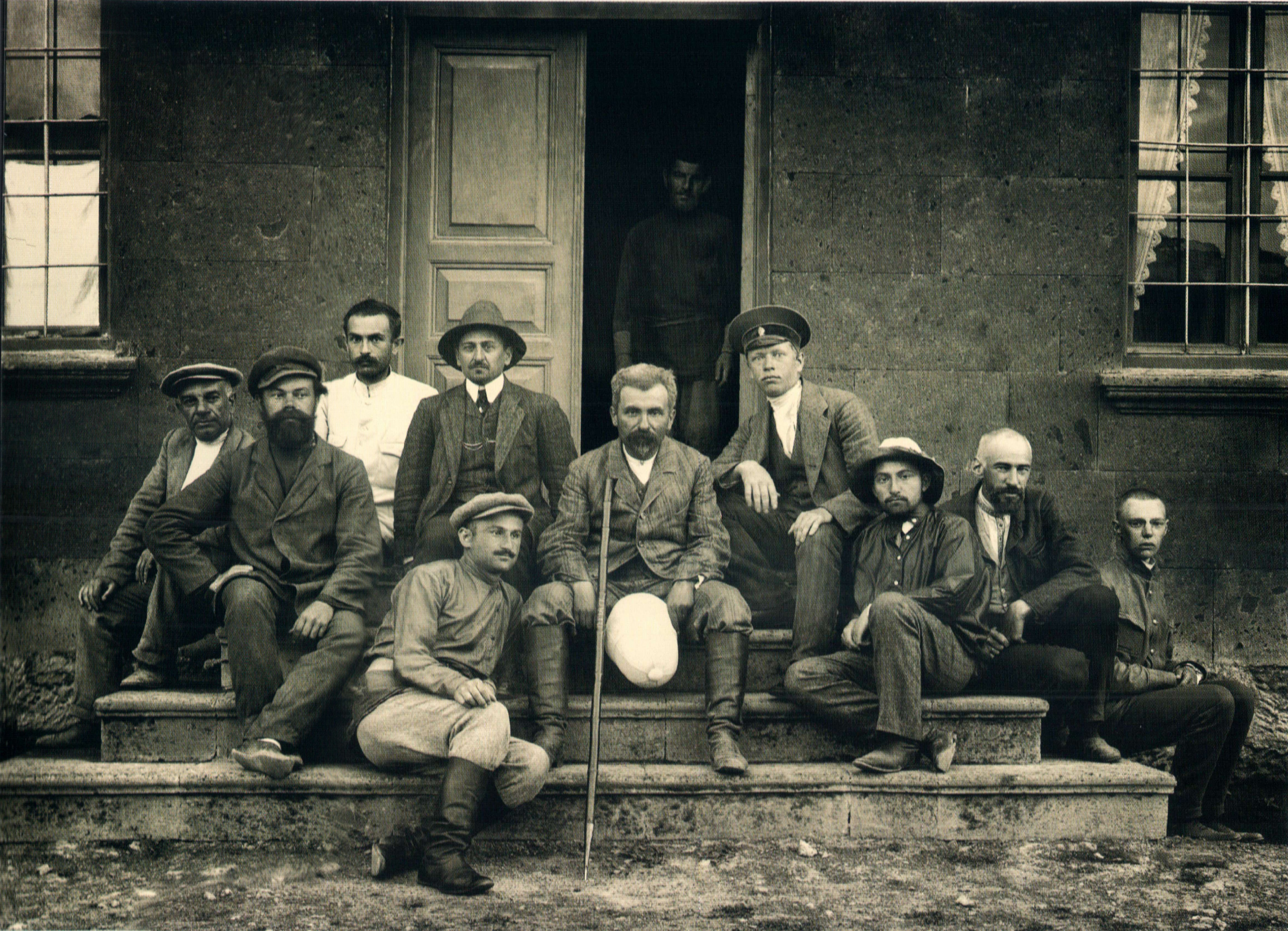 N. Marr Ani expedition (1912) - from left to right: A Vruyr, P. Knyagnitsky, H. Orbeli, N. Adonts, V. Beridze, N. Marr, A. Andrianov, A. Kalantar, Y. Struve, Y. Smirnov